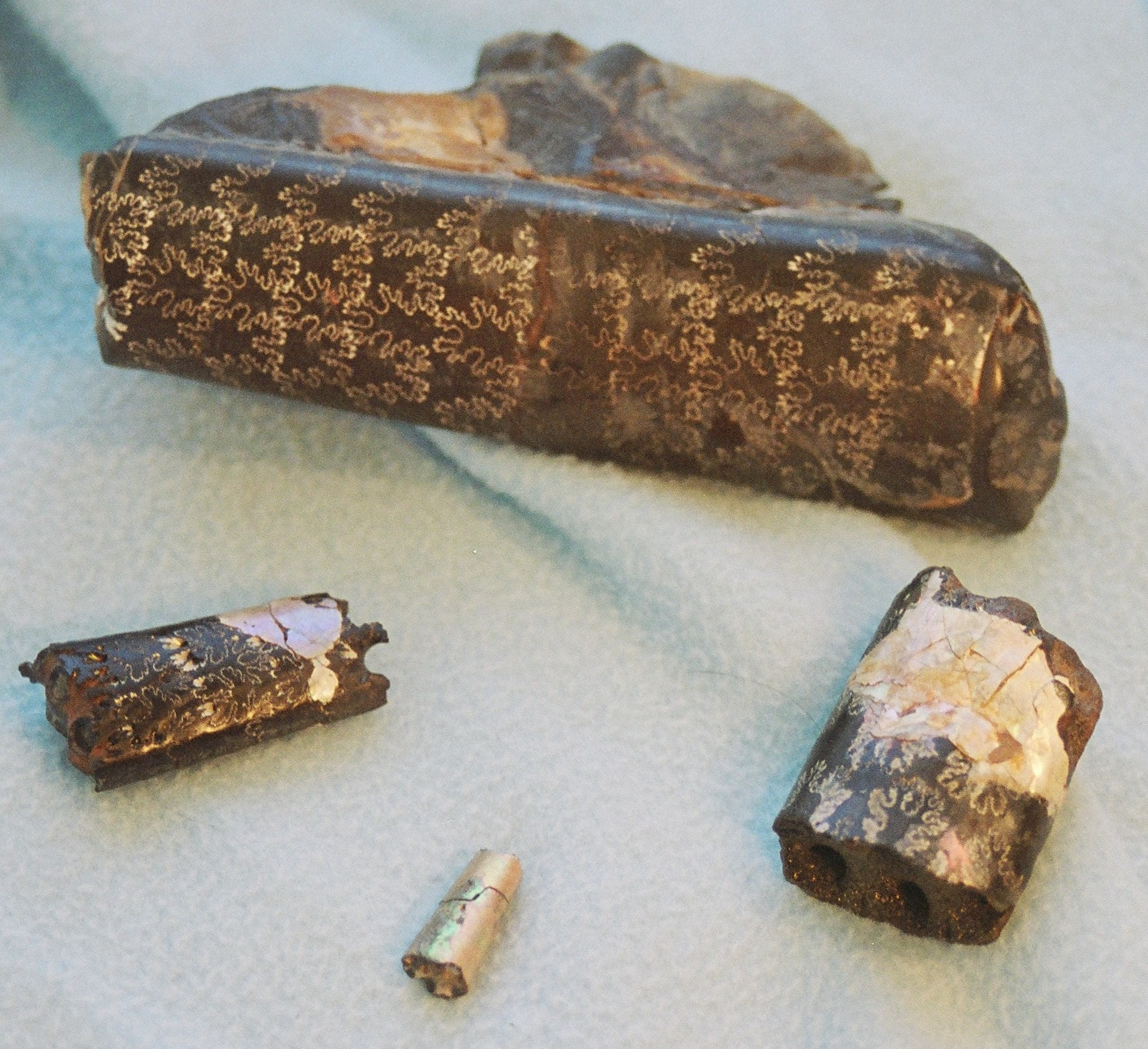 Baculites from my collection; pic taken by me on 3/13/05. They are pyritized to a large extent. Some also show traces of the original nacre (aragonite; mother-of-pearl) shells. Baculites are a kind of ammonite. These come from the Pierre Seaway strata of South Dakota, USA. They are internal molds, and the suture lines of the internal septa can be seen.